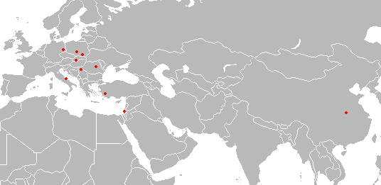 Twin towns/sister cities of Makó, Hungary on the map.